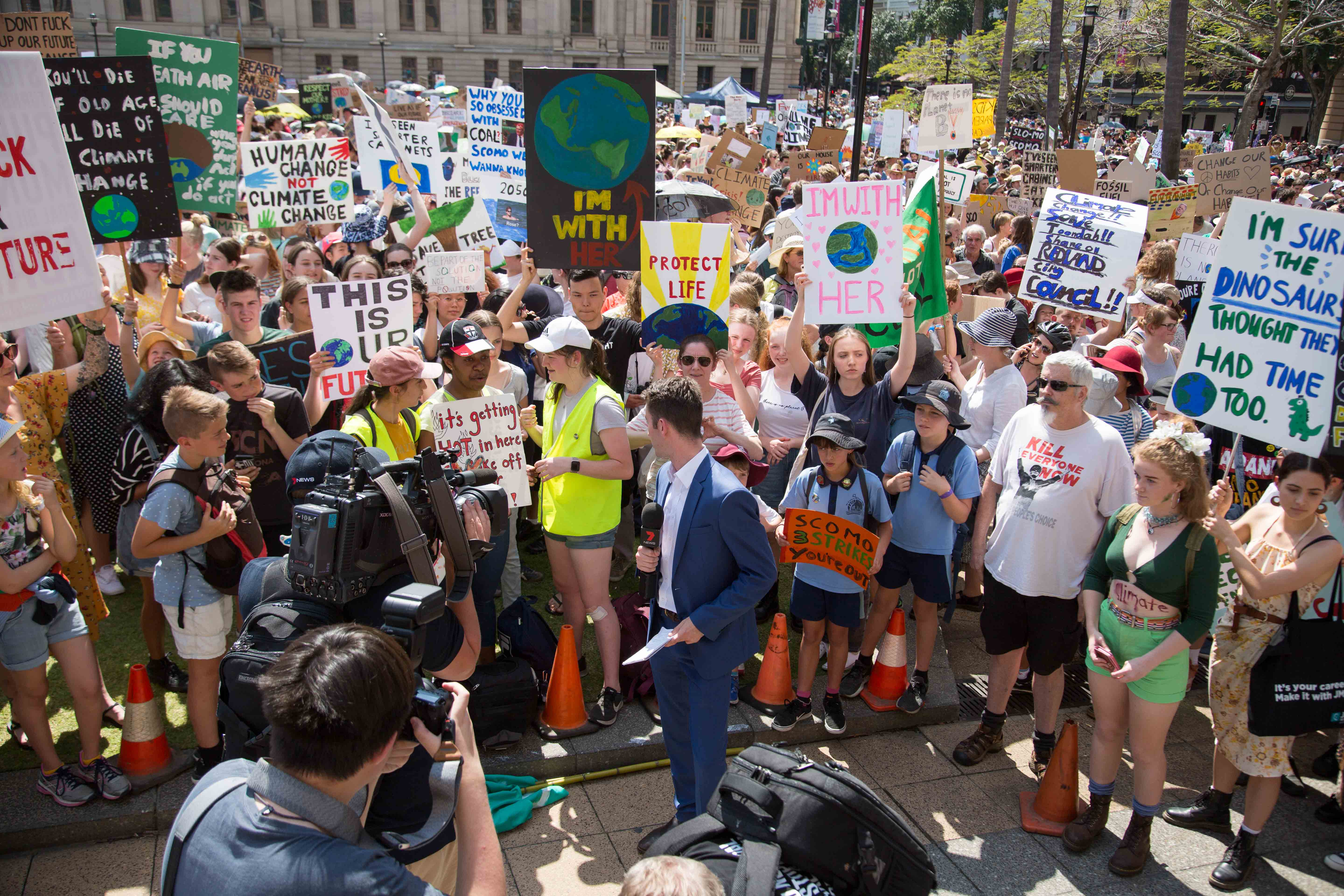 Brisbane Impressions from the Global Climate Strike in Queensland on 20 September 2019